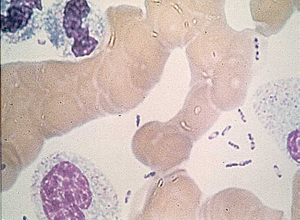 Wayson stain of Yersinia pestis. Note the characteristic "safety pin" appearance of the bacteria.